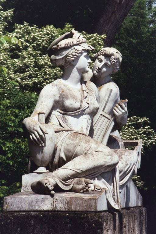 Statues of women, Tübingen, Germany. This is a copy of the sculpture Wasser- und Wiesennymphe by Johann Heinrich Dannecker (1757-1841). It depicts the Nymph of Meadows crowning the Nymph of Water.